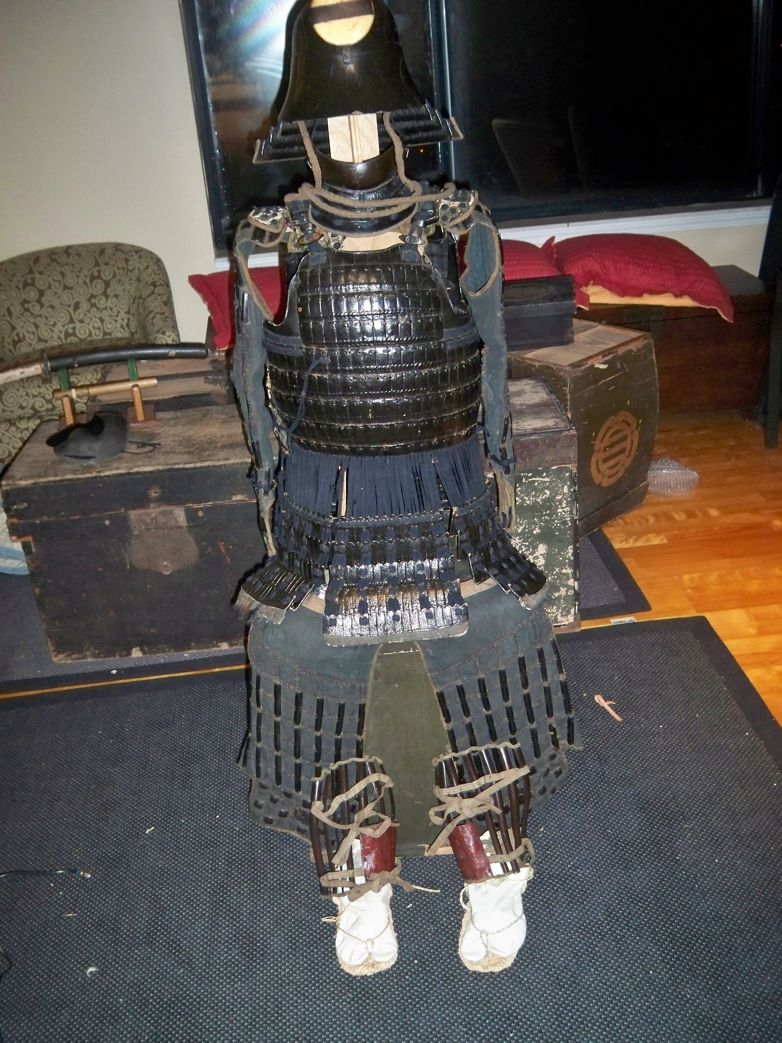 {antique Edo period 1600s samurai armor Hosokawa Clan, Etchu style Gusoku,complete Matching non restored}